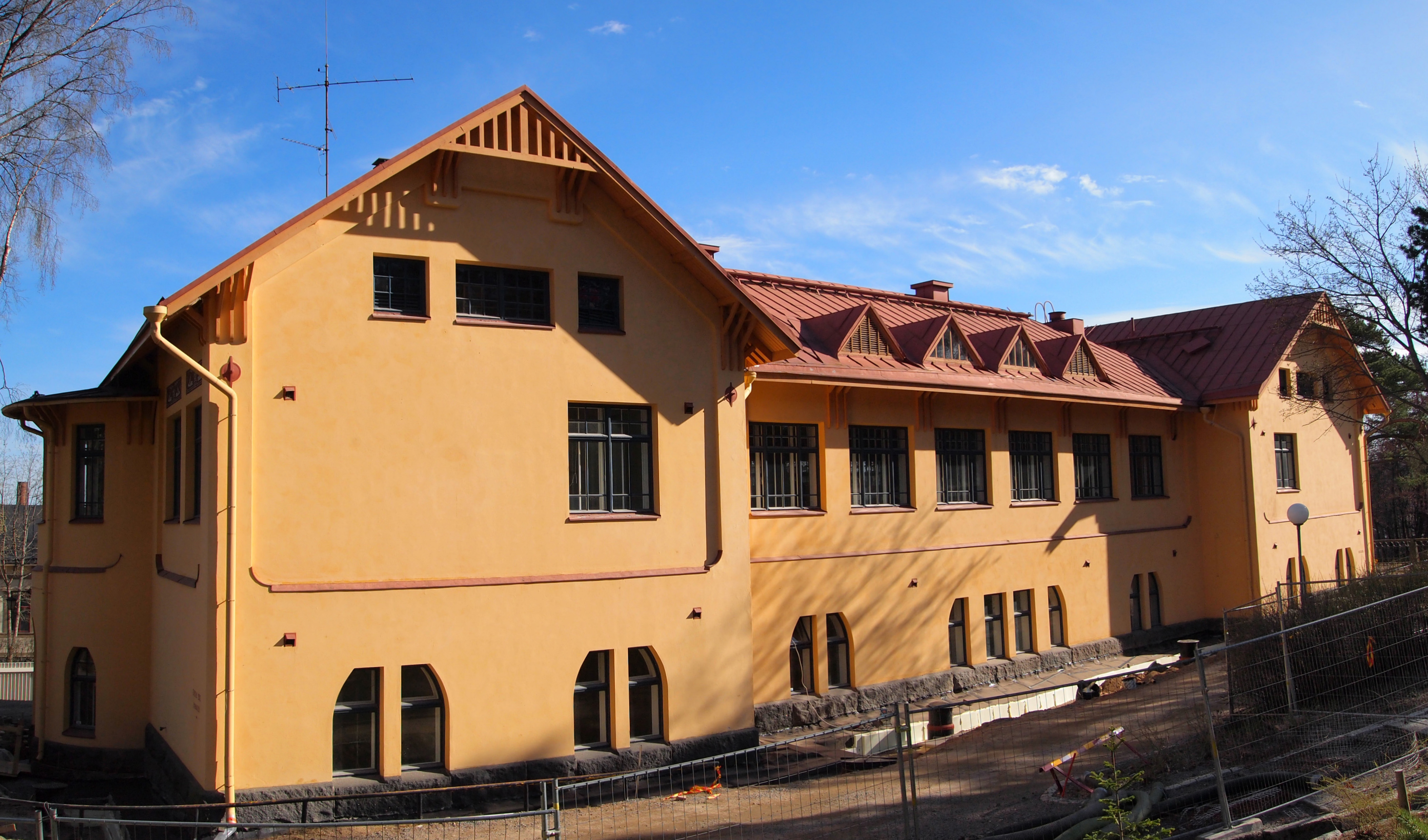 Building Villa Rana, Seminaarinmäki campus, Jyväskylä. This photograph was taken with an Olympus E-PL1